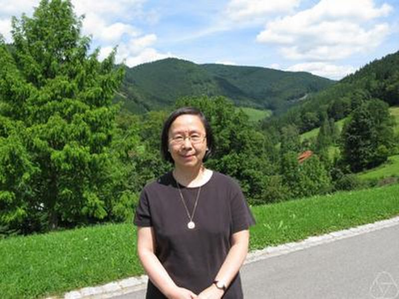 Sun-Yung Alice Chang, Oberwolfach 2009